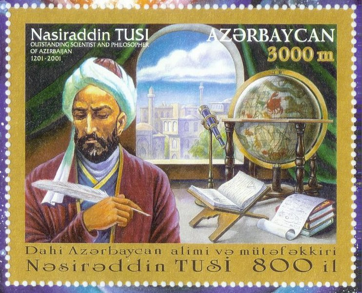 A portrait of Nasraddin Tusi